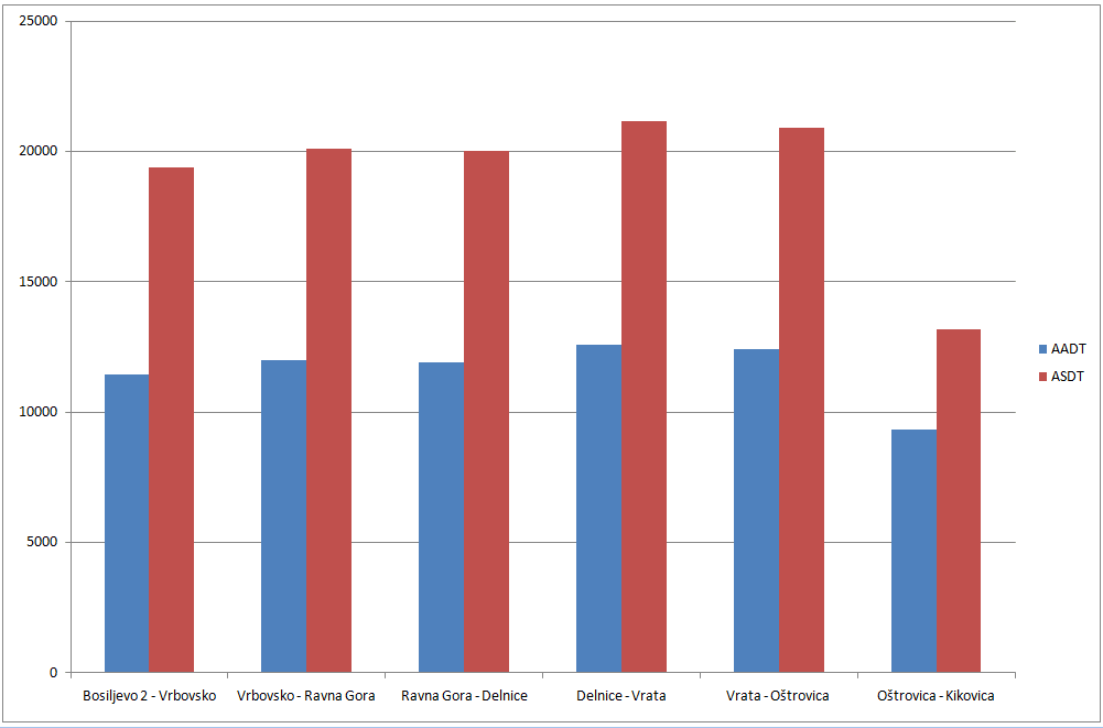 Croatian A6 motorway AADT/ASDT volume graph